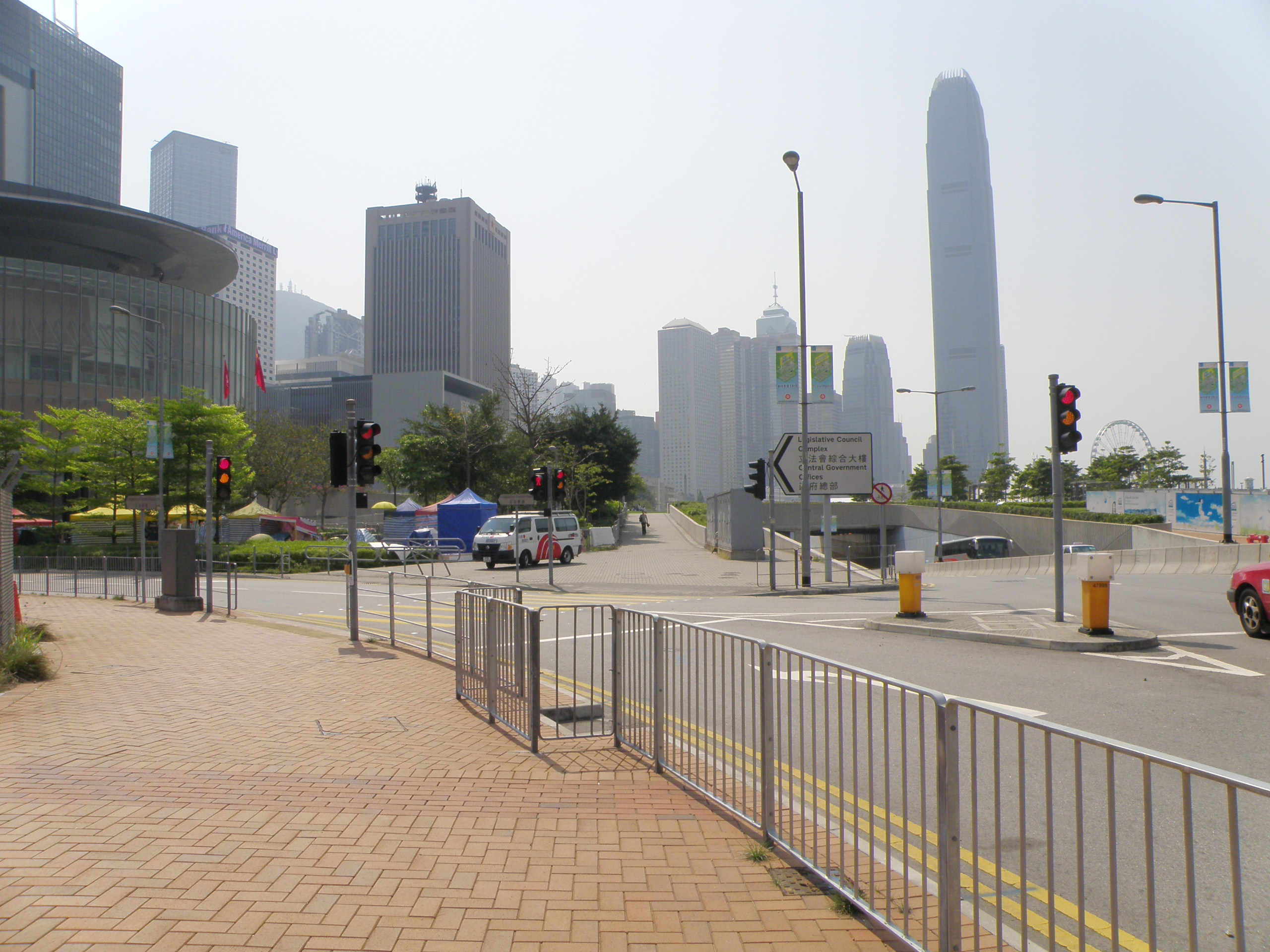 Tamar Station in Admiralty, Hong Kong.